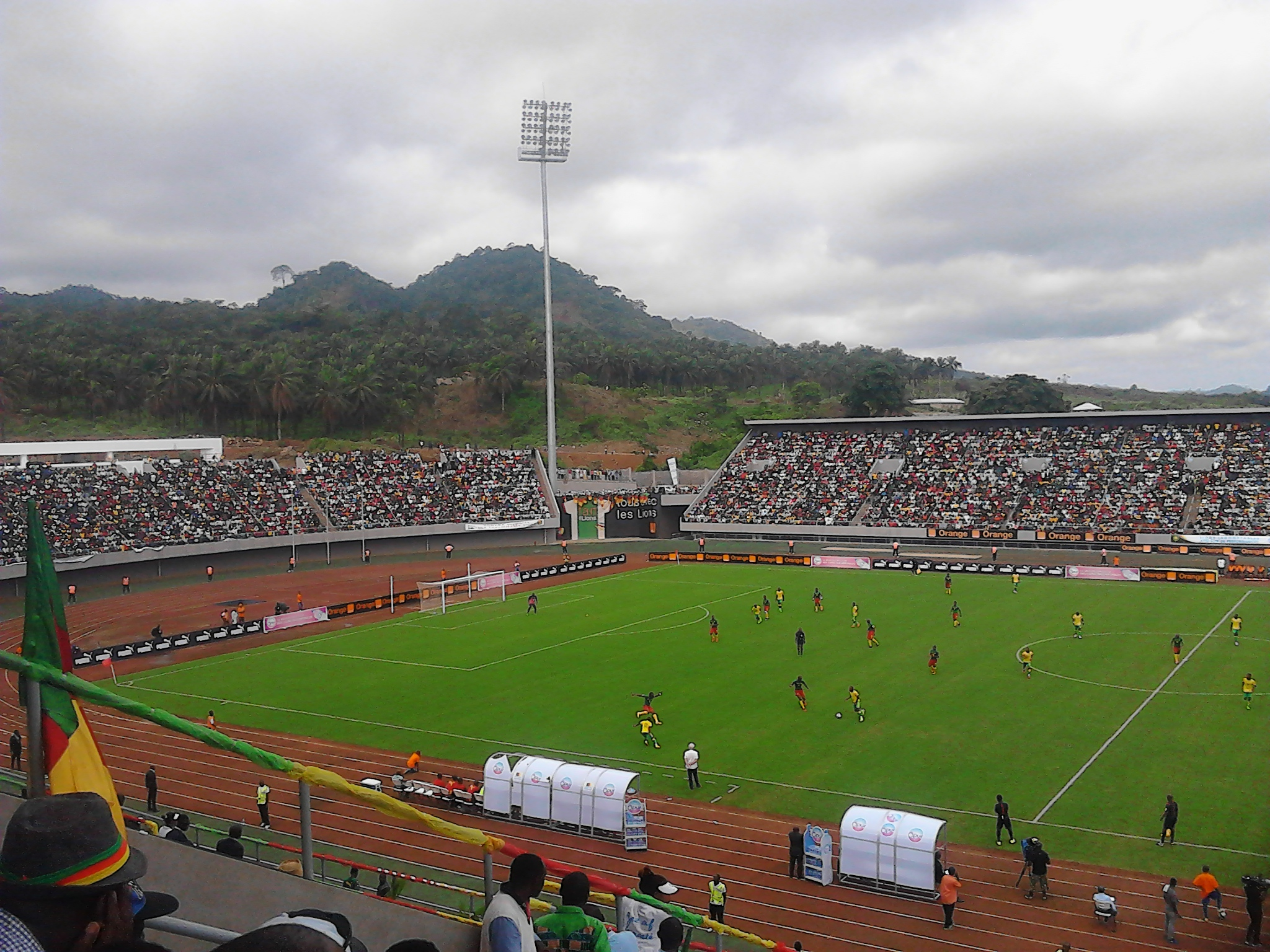 Meet the almighty field they build after 55 Years of partnership